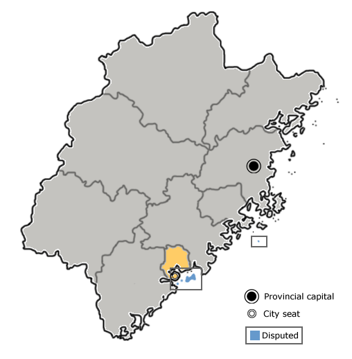 The sub-provincial city of Xiamen is highlighted on this map of Fujian province, People's Republic of China.